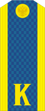 Russian rank insignia (1994-2010), here Kursant (wit the ranc "Private" OR-1) – shoulder strap (Air Force, Airborne troops) field uniform.